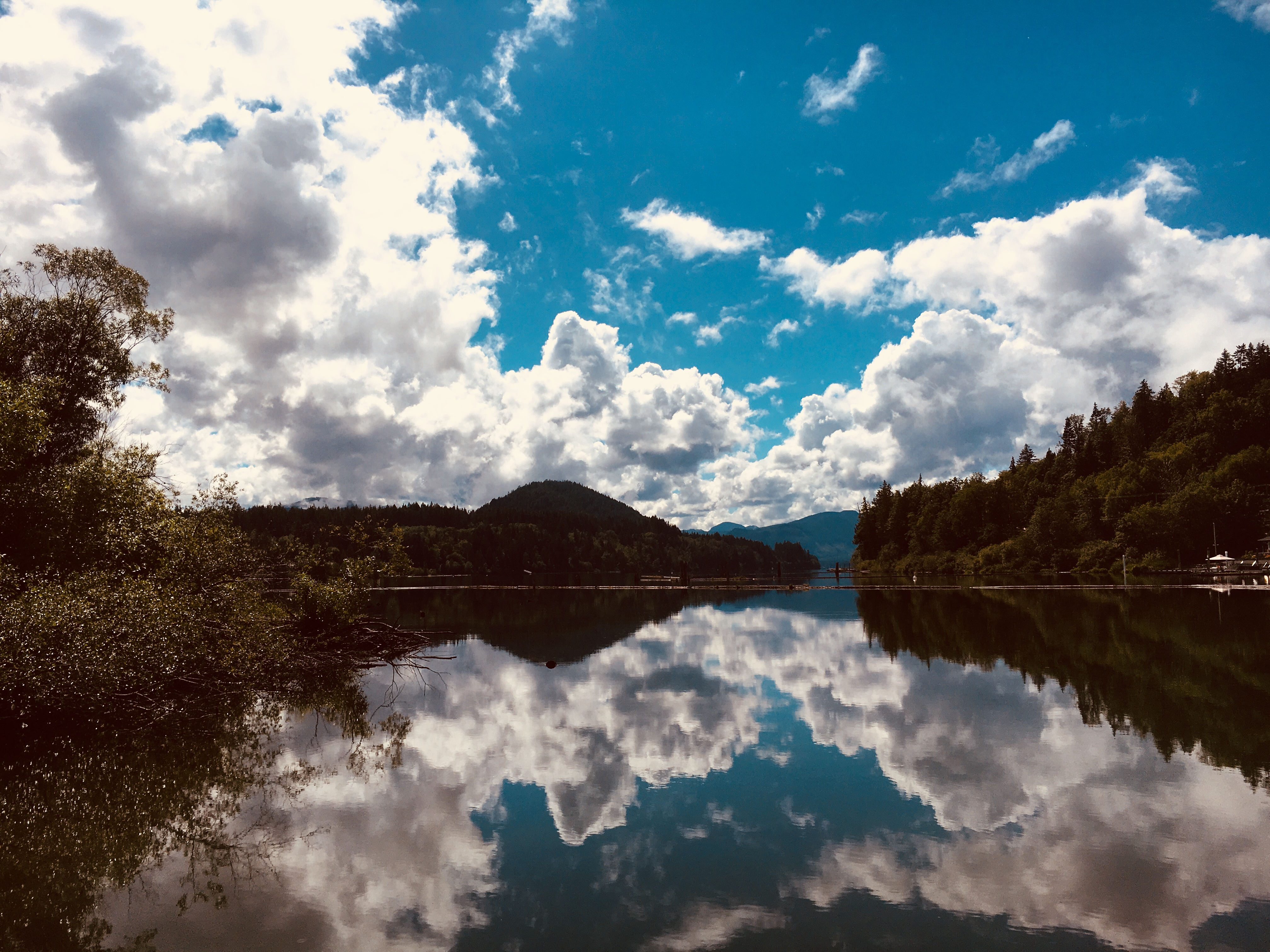 The mountains reflection on the lake when it’s settled.